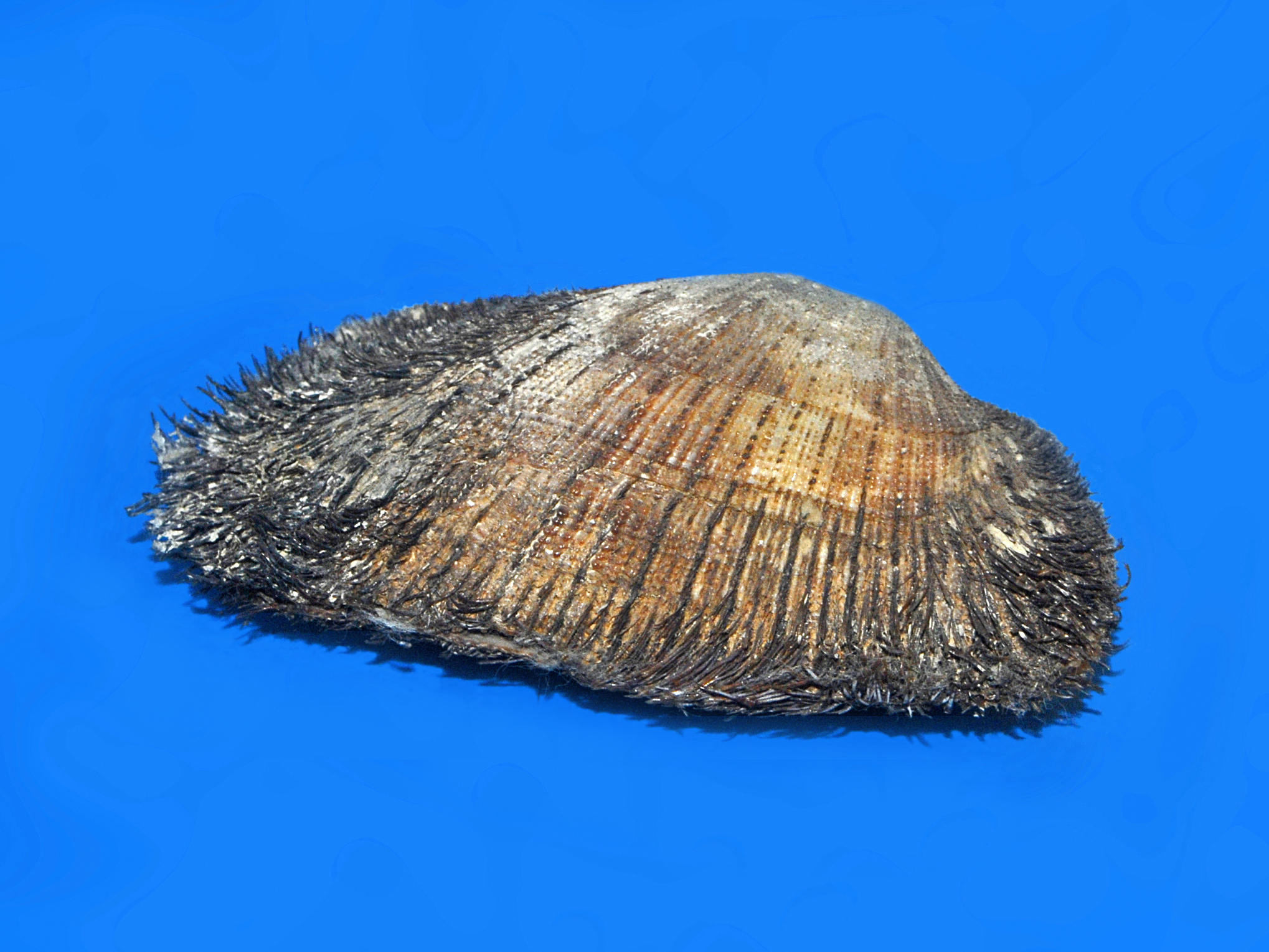 Shell of Barbatia barbata from Sicily at the Museo Civico di Storia Naturale di Milano